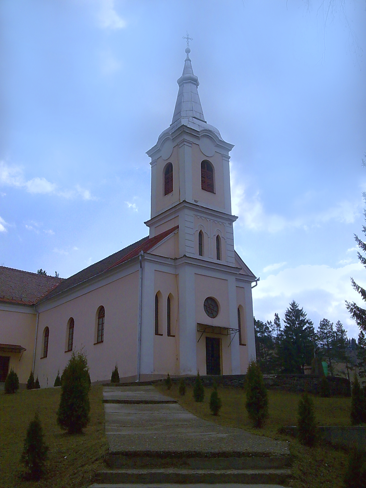 Gyimesfelsolok (Lunca de Sus) St. Andrew Parish Church built in 1902